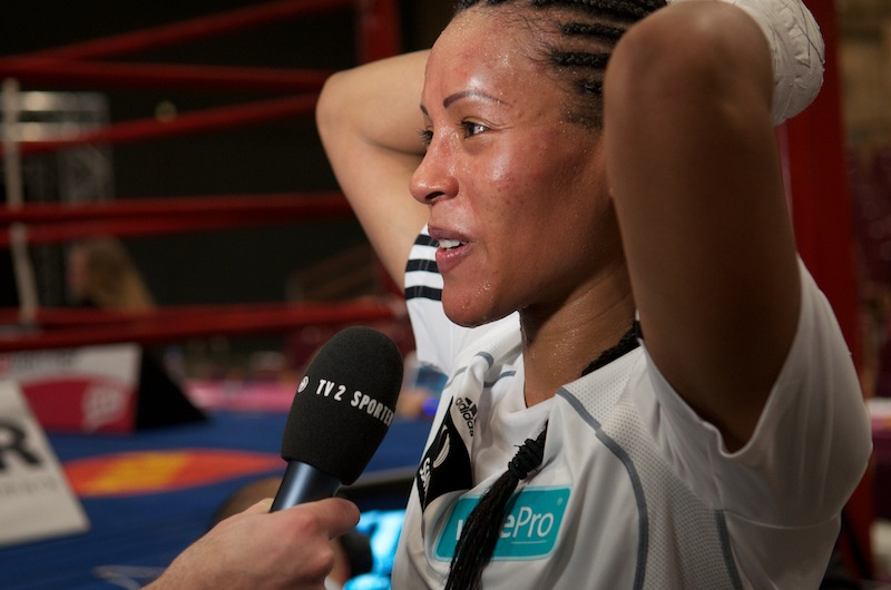 Cecilia Brækhus after winning over Jill Emery at the Herning Kongrescenter, Herning, Denmark on April 2, 2011.